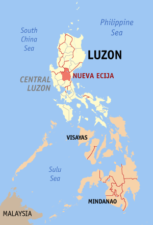 Map of the Philippines showing the location of Nueva Ecija